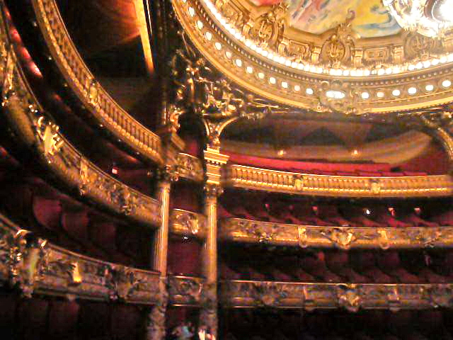 Opera House of Paris